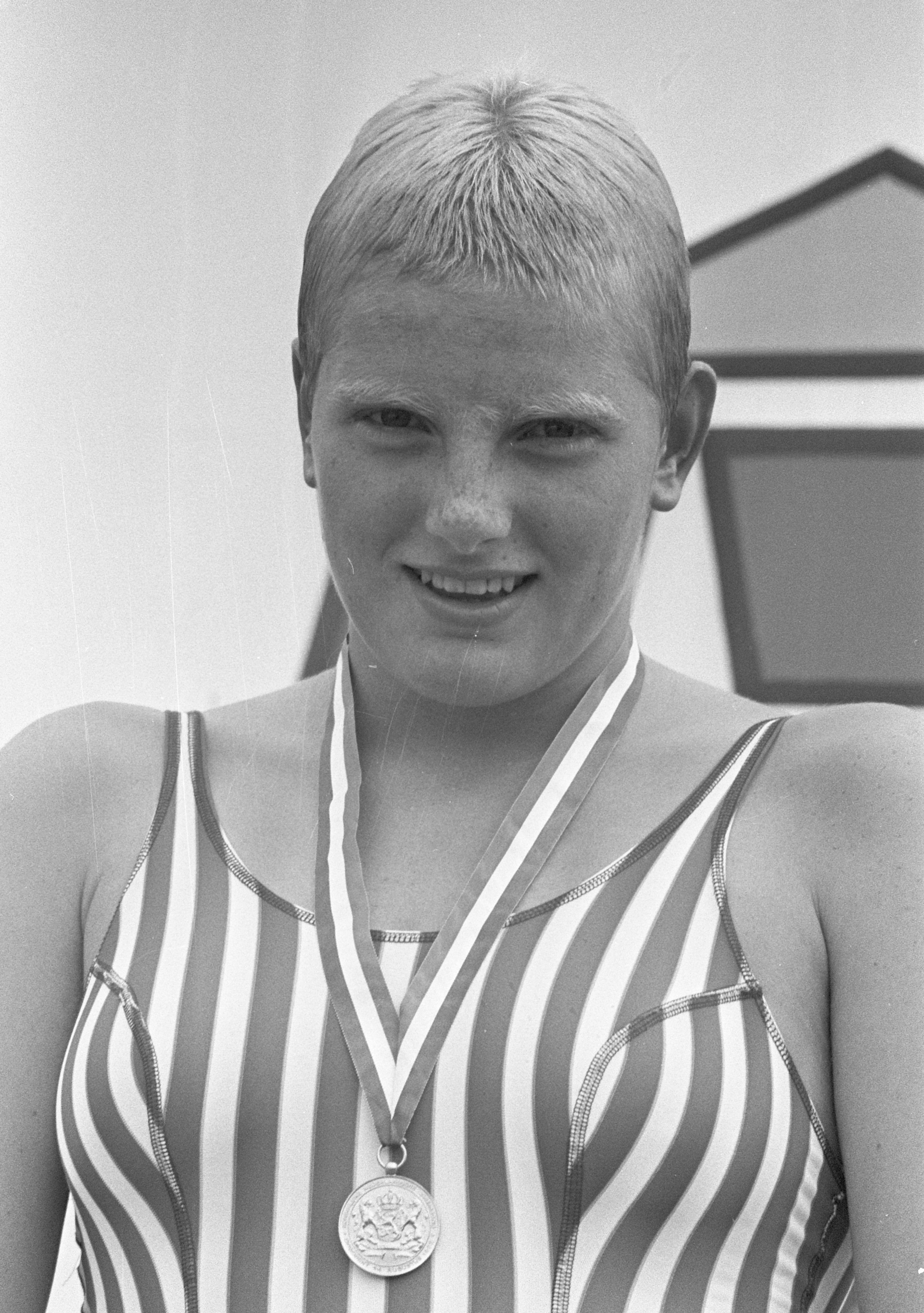 Hansje Bunschoten